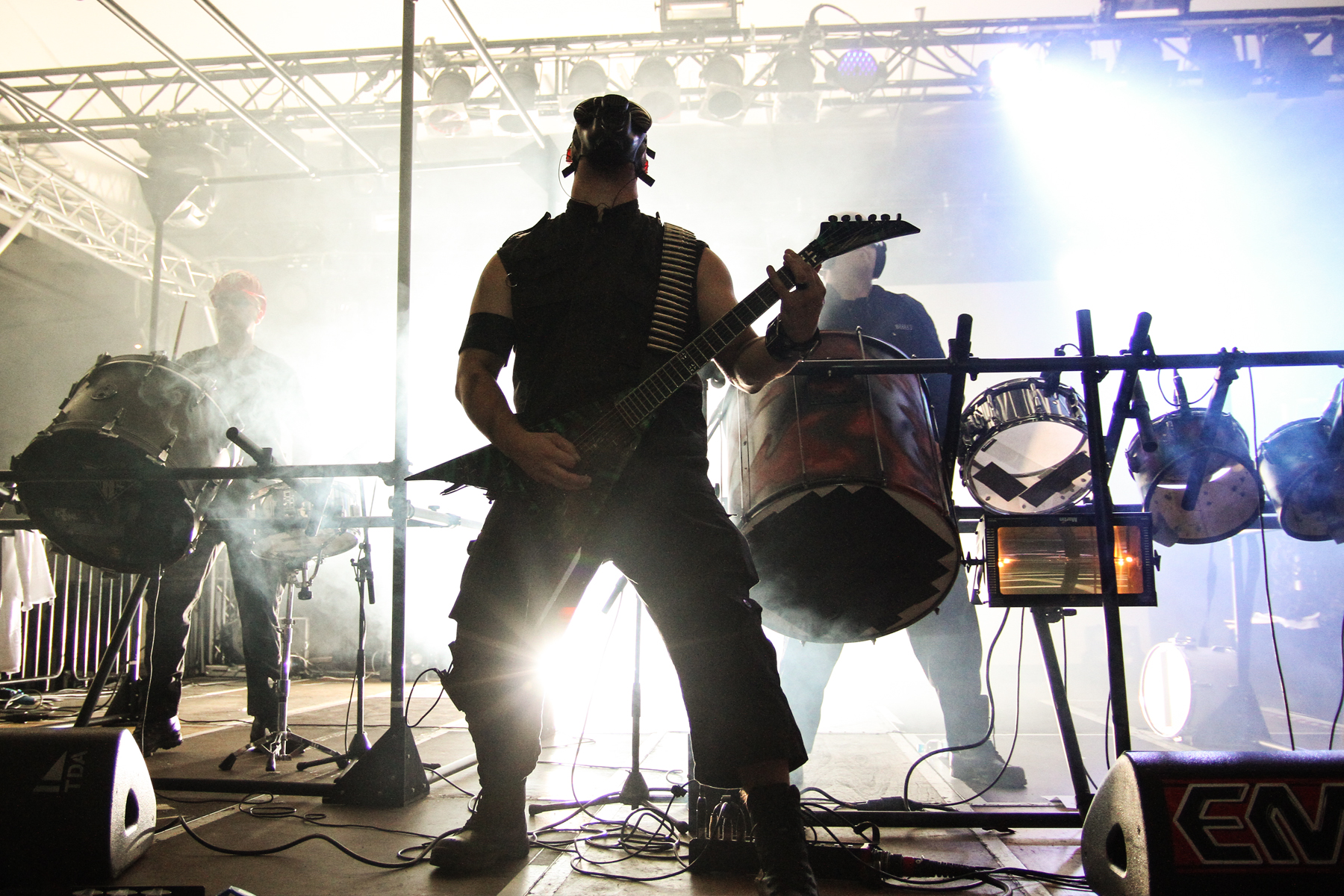 Feindflug at the Amphi Festival 2011 in Cologne, Germany